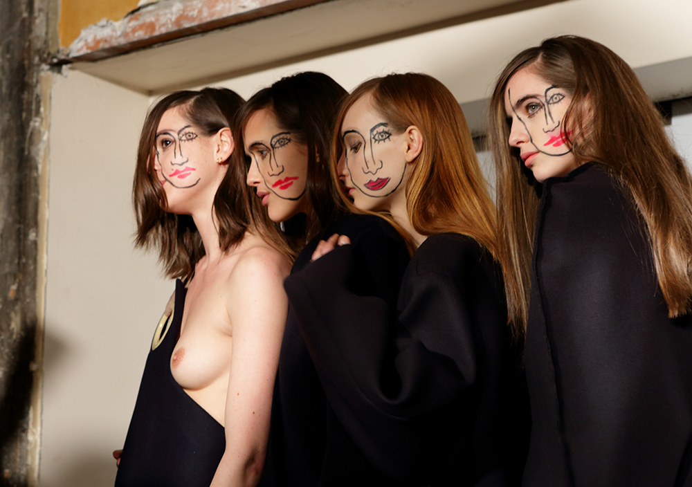 "Doublefaced 82", artwork, face-paint and photo by Berlin based artist by Sebastian Bieniek, 2015. Oeuvre of Bieniek-Face. Paris Fashion Week 2015. Presentation of Simon Porte Jacquemus collection. Аҧсшәа: "Doublefaced 82" Kunstwerk, Foto und Gesichtsbemalung von berliner Künstler Sebastian Bieniek, 2015. Oeuvre von Bieniek-Face. Paris Fashion Week 2015. Vorstellung der Simon Porte Jacquemus mode collection.